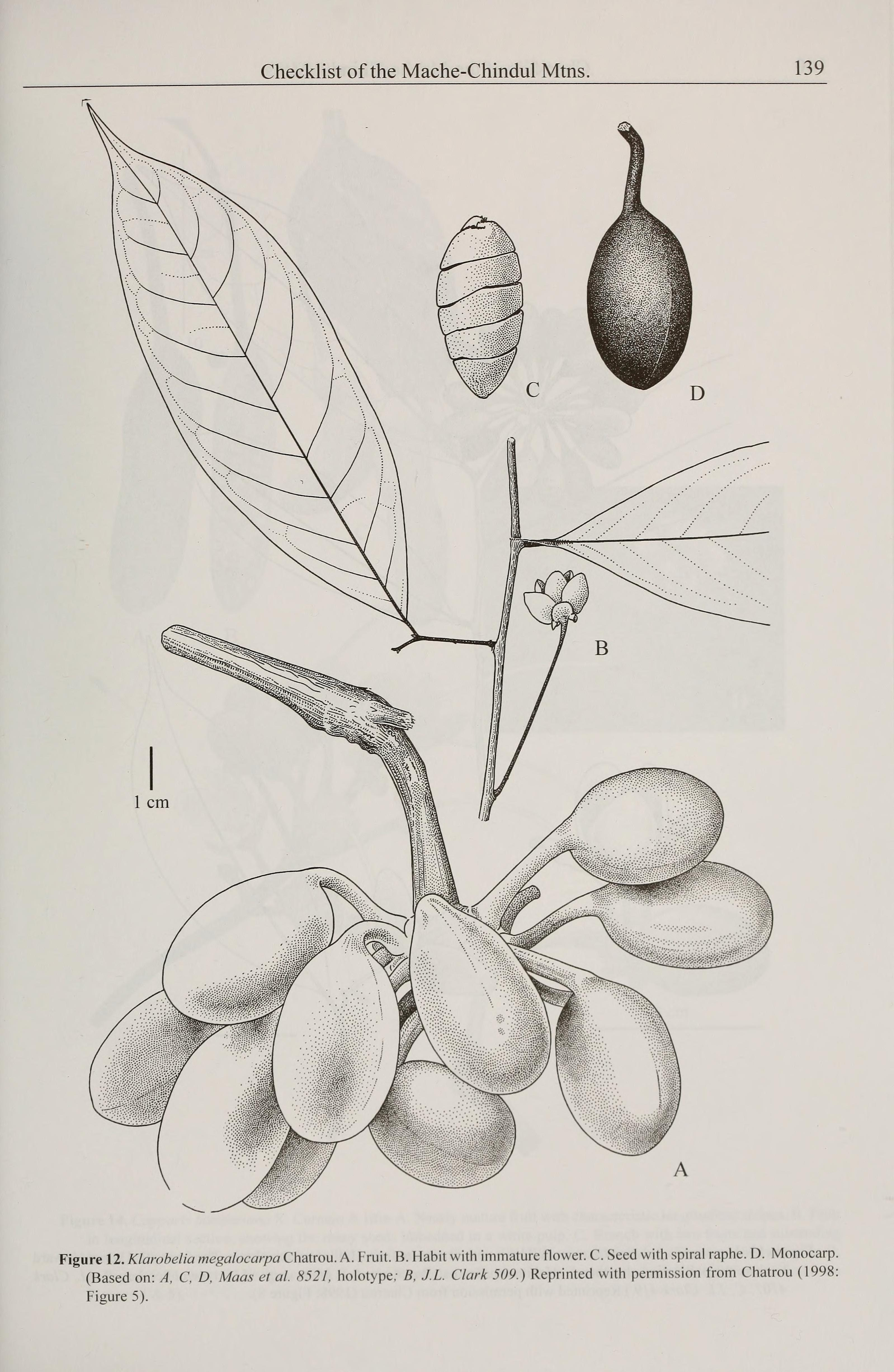 Title: Contributions from the United States National Herbarium Year: 1890 (1890s) Authors: National Museum of Natural History (U. S. ). Dept. of Botany; United States National Museum Subjects: Botany Publisher: Washington, DC : Dept. of Botany, National Museum of Natural History Text Appearing Before Image: Checklist of the Mache-Chindul Mtns. 139 Text Appearing After Image: Figure 12. Klarobelia megalocarpa Chatrou. A. Fruit. B. I labit with immature flower. C. Seed with spiral raphe. D. Monocarp. (Based on: A. C. D. Maas et al. 8521, holotype; B. J.L. Clark 509.) Reprinted with permission from Chatrou (1998: Figure 5).